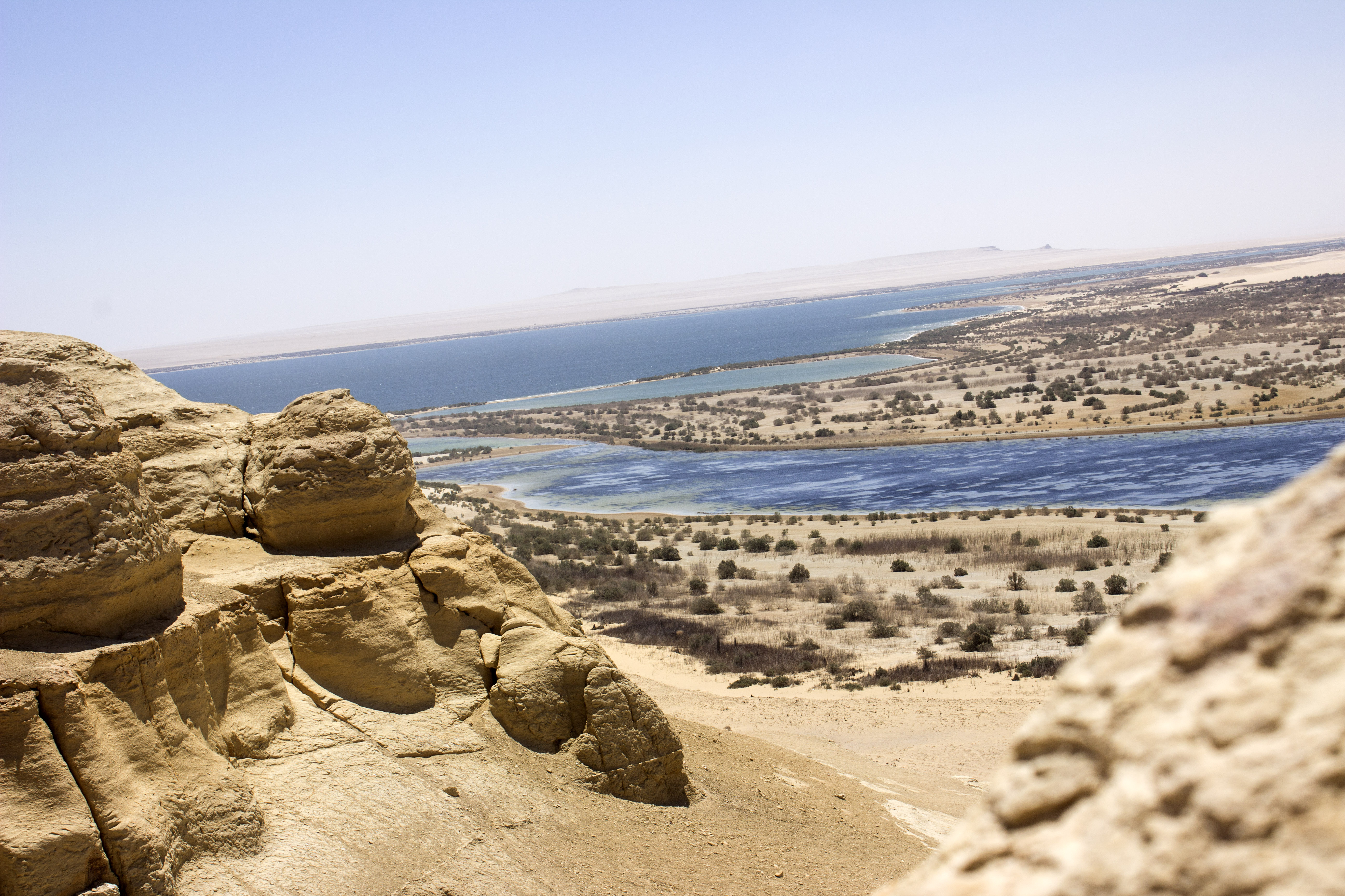 Wadi El-Rayyan, Fayoum, Egypt